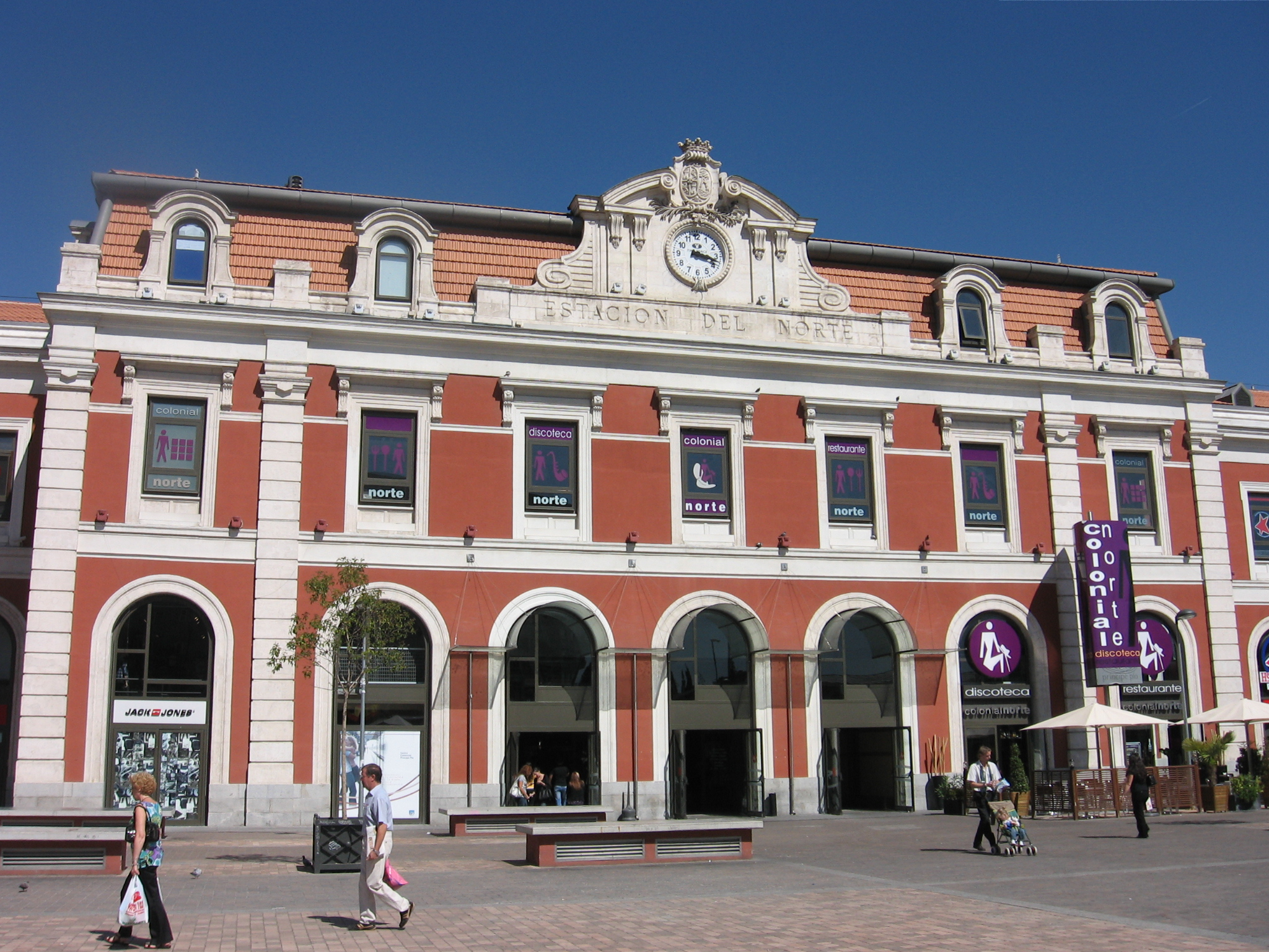 Estación del Norte, Príncipe Pío